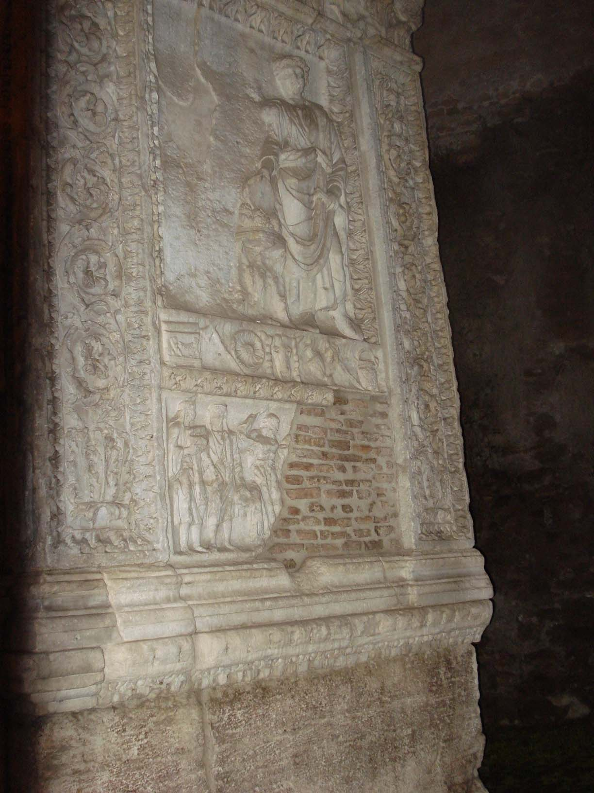 Arco degli Argentari - emperors Caracalla and Geta (erased)